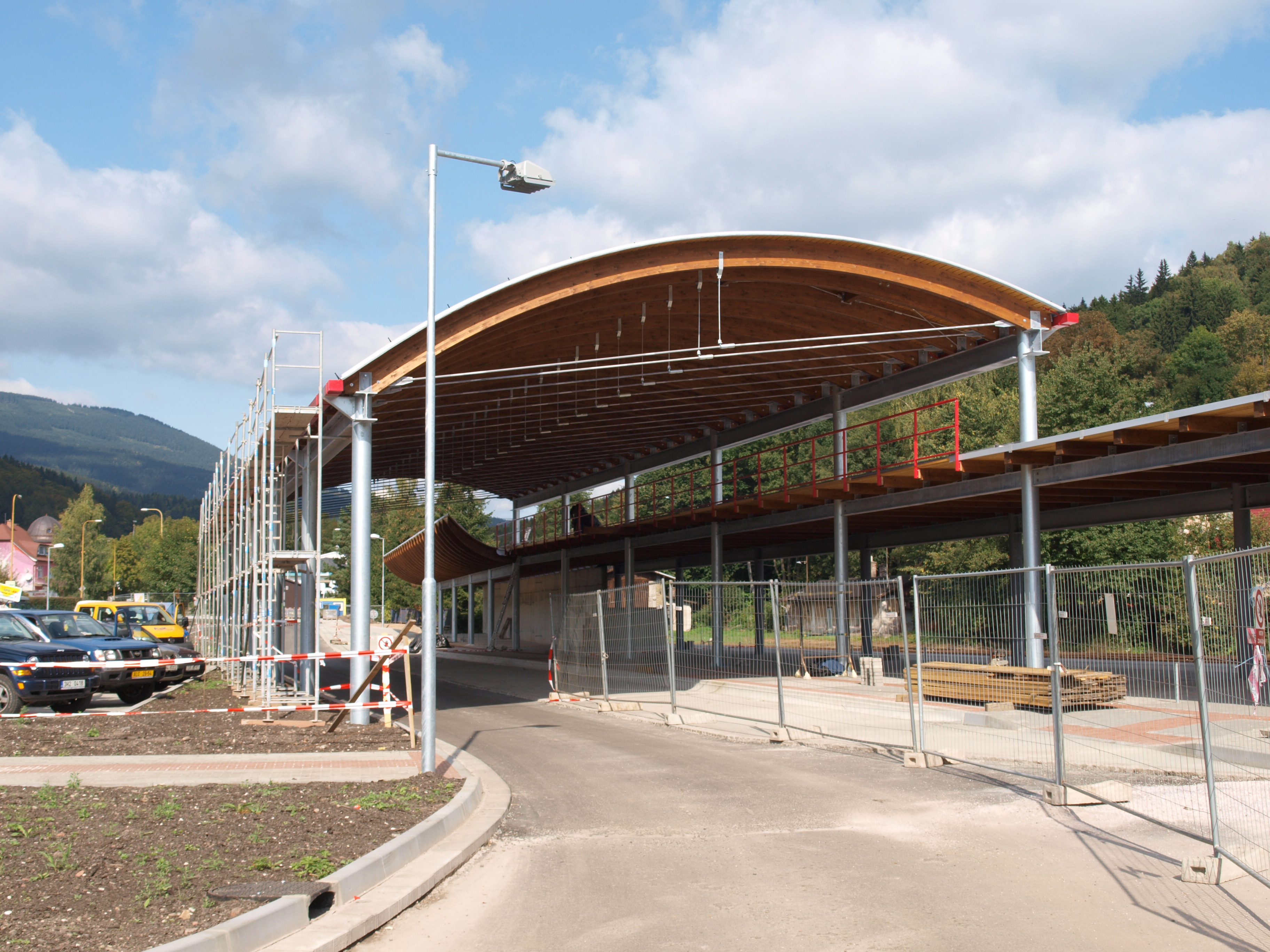 New bus station in Svoboda nad Úpou